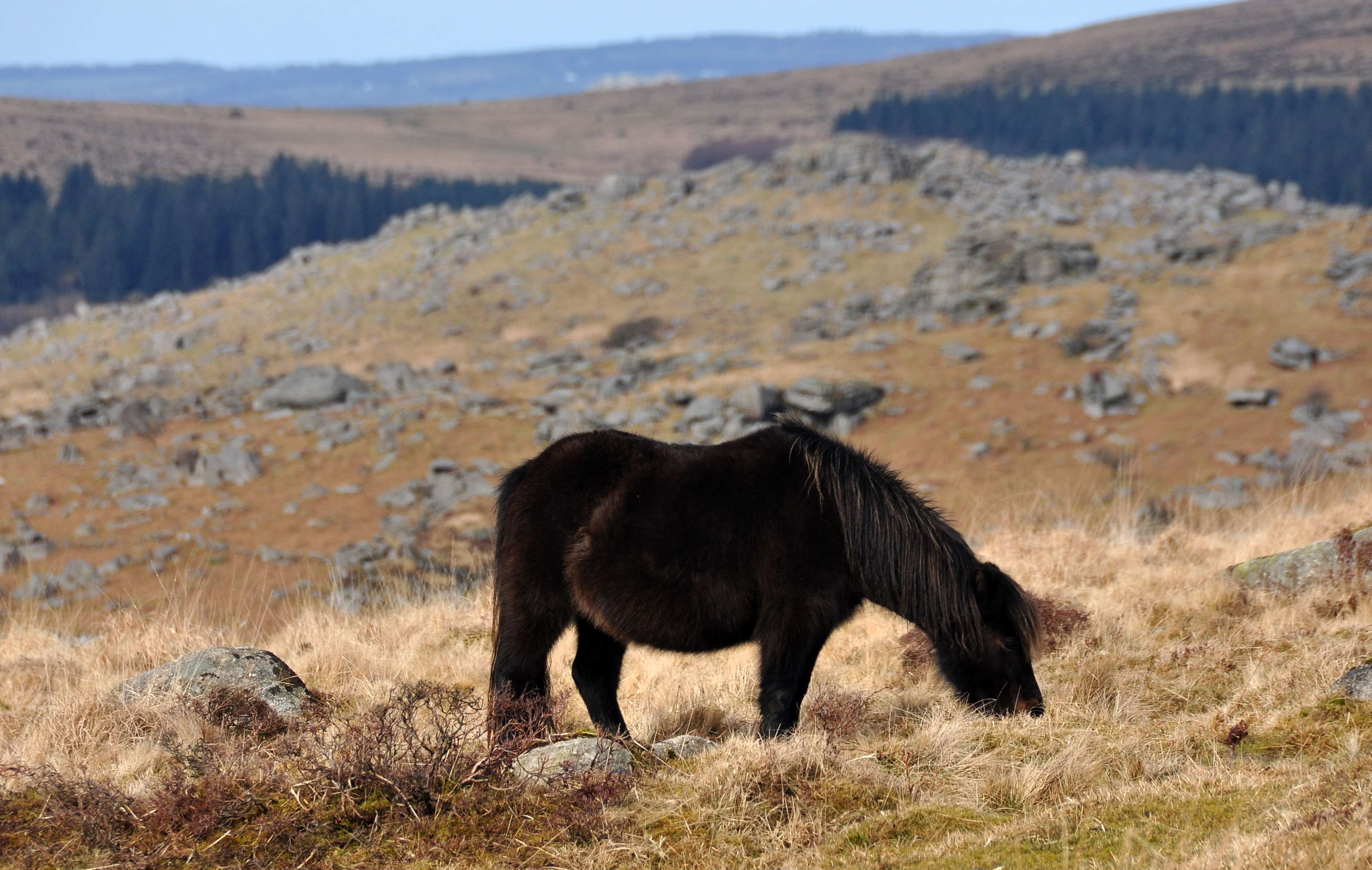 A Dartmoor Pony near Eylesbarrow mine on Dartmoor. The tors near Burrator Reservoir are visible in the background.